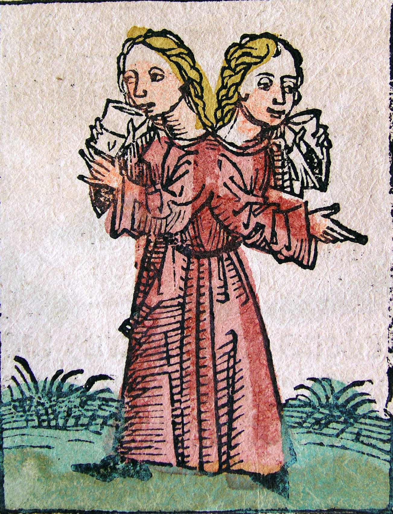 Illustrations from the Nuremberg Chronicle, by Hartmann Schedel (1440-1514)